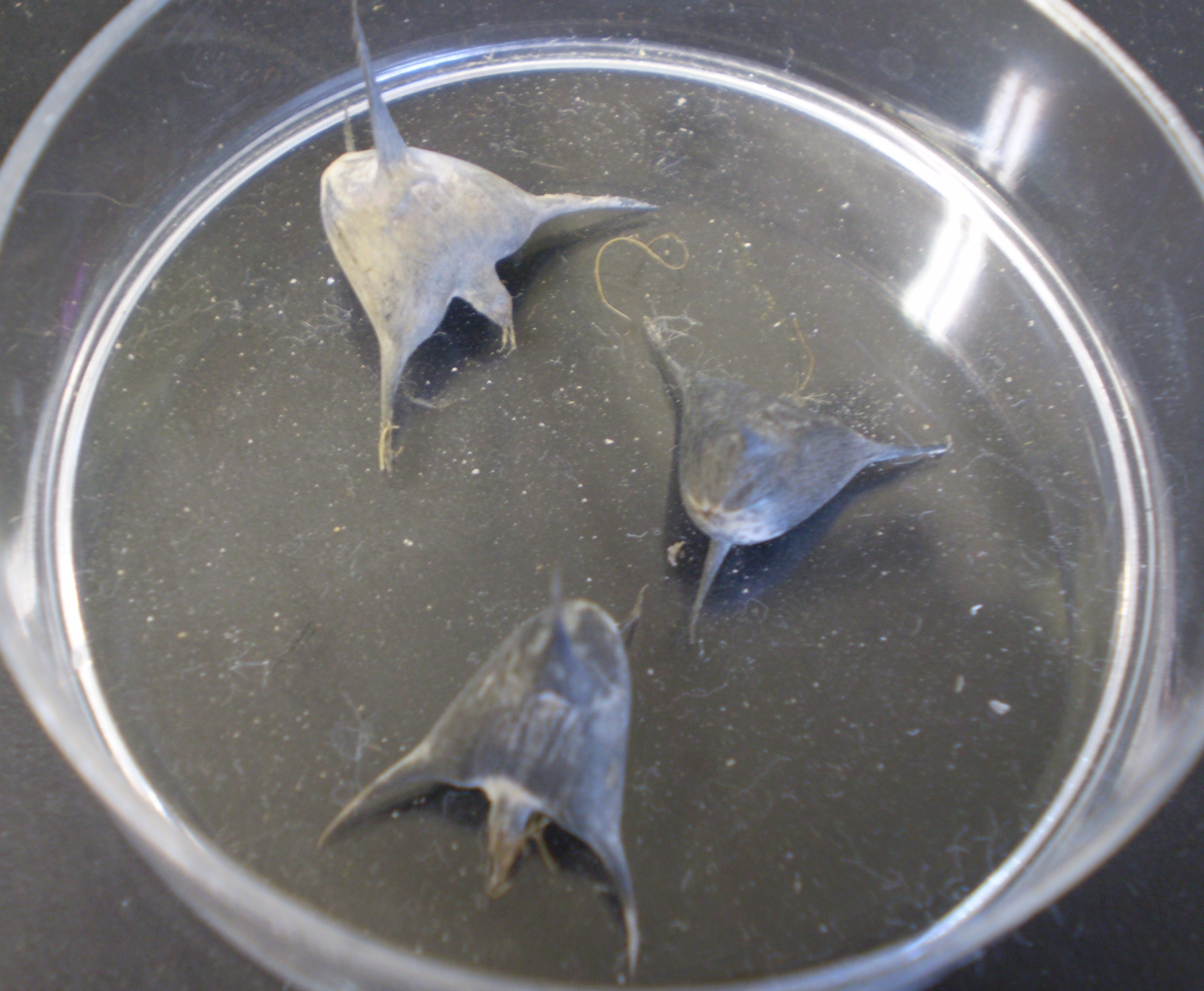 Trapa incisa nuts